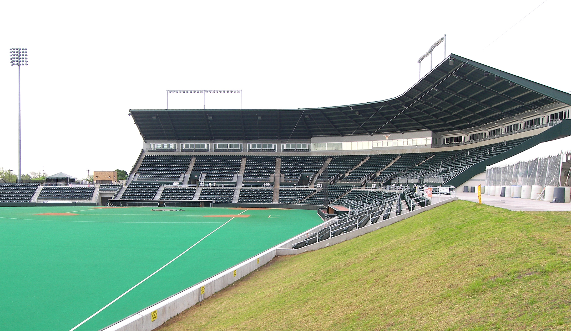 UFCU Disch-Falk Field located in Austin, Texas, United States.